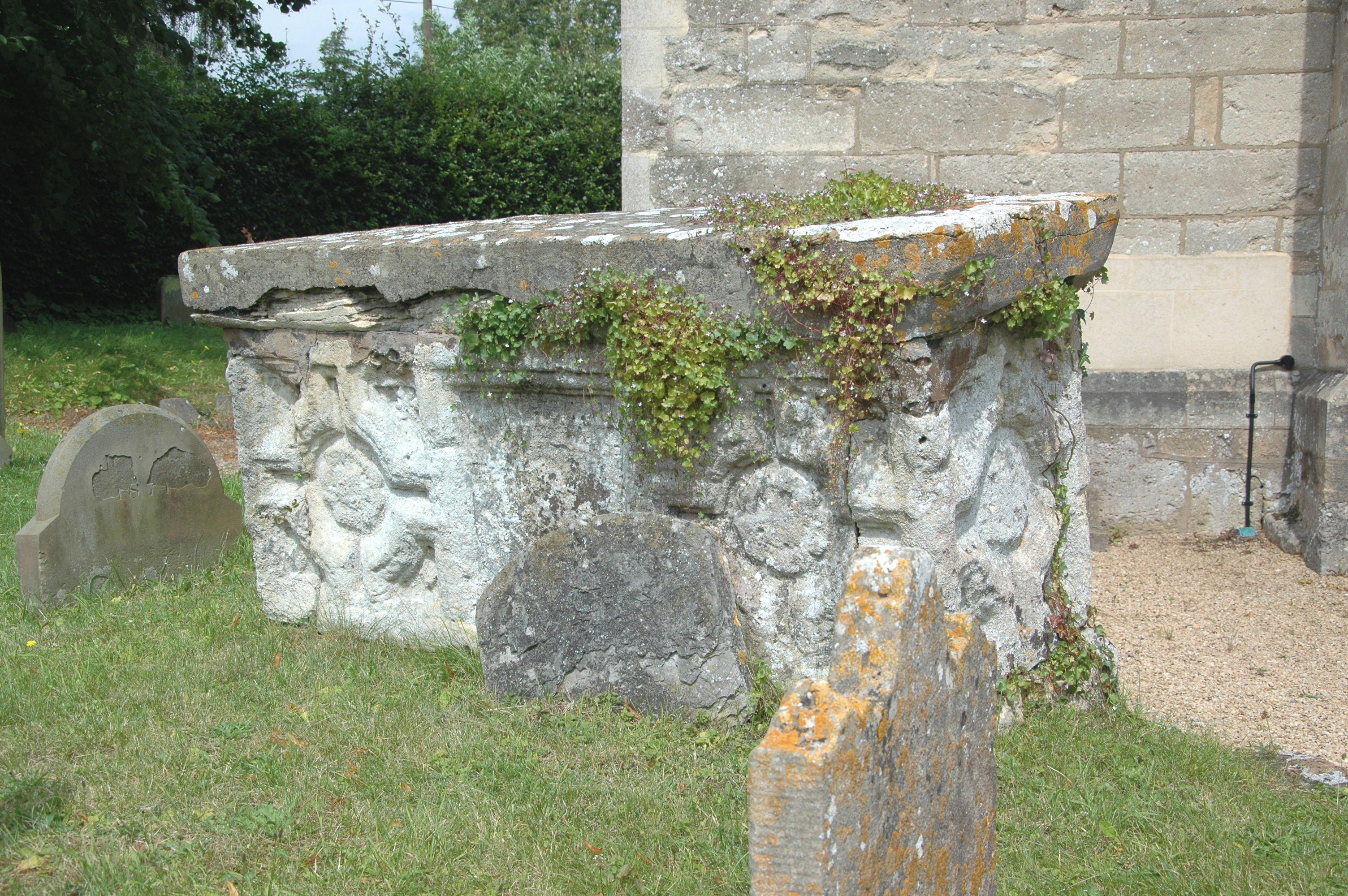 17th-century chest tomb in St James the Great parish churchyard, Radley, Oxfordshire (formerly Berkshire)